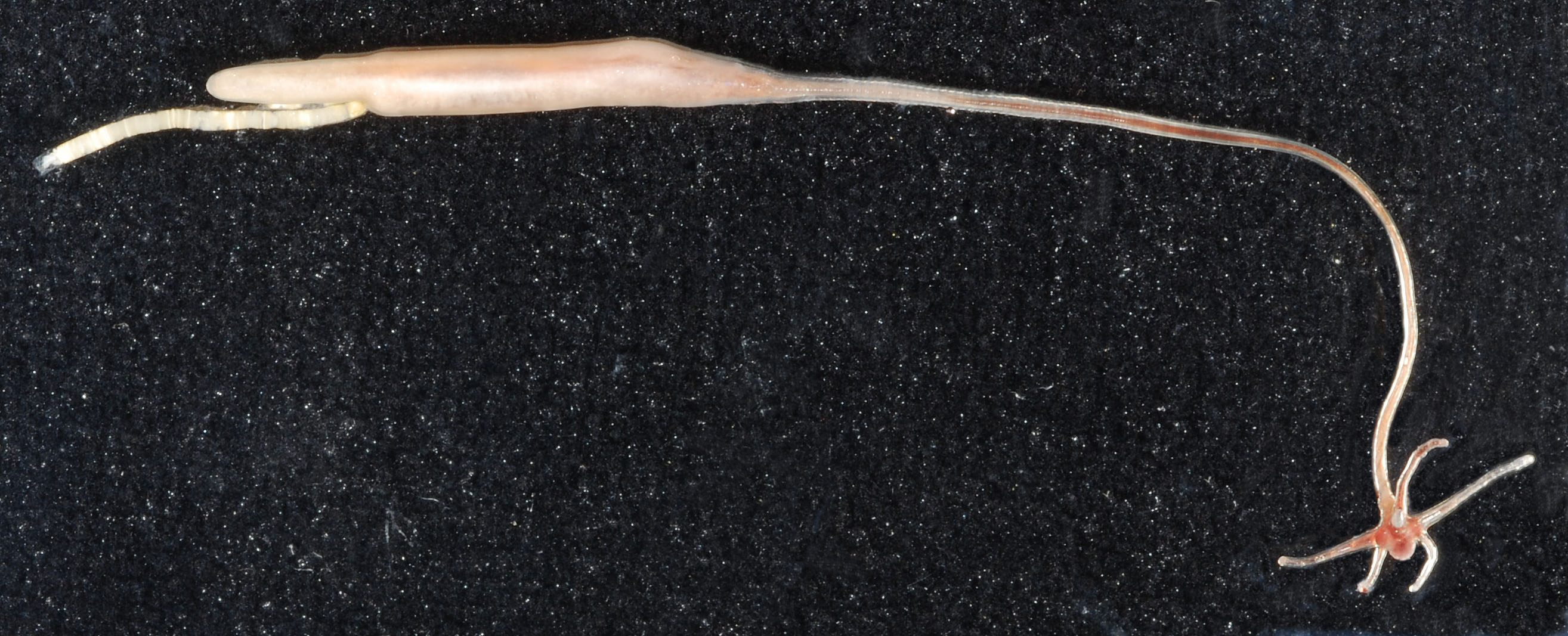 Lernaeenicus radiatus, an anchor worm (parasitic copepod), found infecting a river herring (Alosa spp.) in Choptank River near Greensboro, Caroline County, Denton Quad, MD - 04/22/15. Photo by Robert Aguilar, Smithsonian Environmental Research Center.